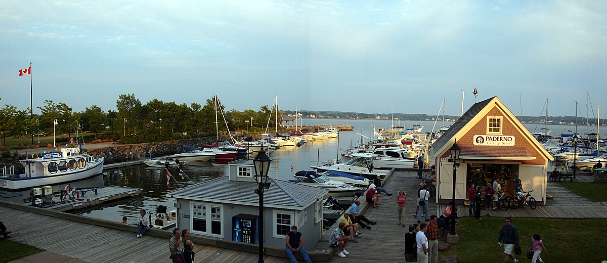 Peakes quay in Charlottetown, Prince Edward Island, Canada